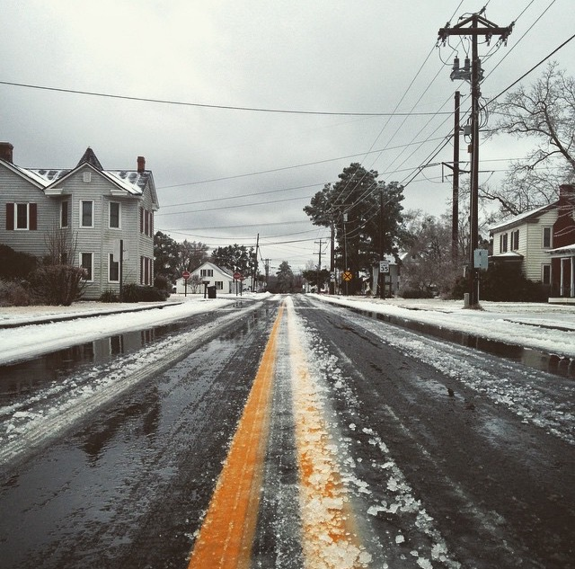 Snow covered Main Street of Winfall, North Carolina